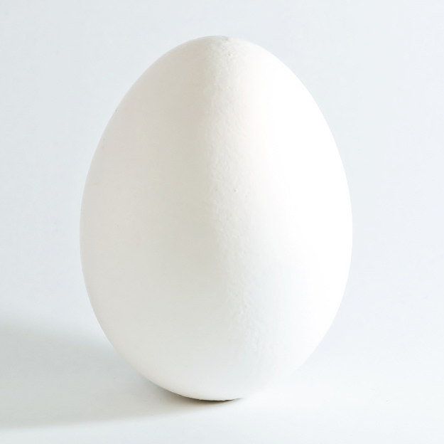 A generic white chicken egg.